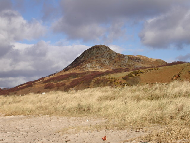 Dun Skeig from the beach This dun affords spectacular views to Arran and Jura.